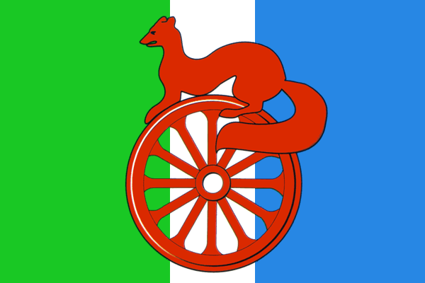 Flag of Barabinsk, Novosibirsk Region, Russia